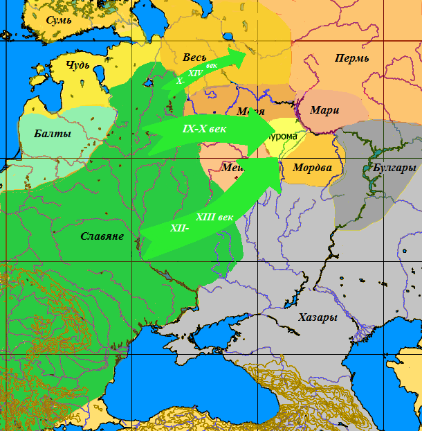 Slavic migration into Finno-Ugric lands of Central Russia, 9th-13th centuries